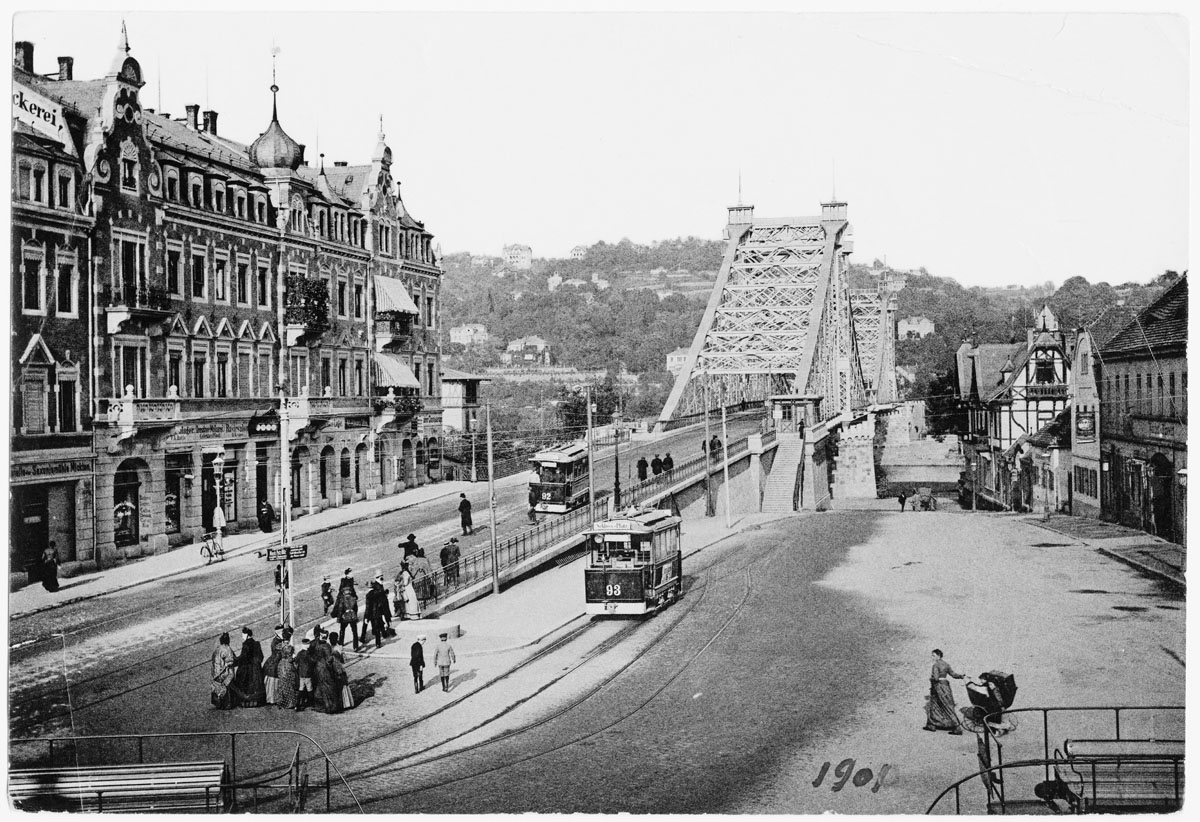 Gata i Dresden 1901 med spårvagnar Photograph by: unknown Date: 1901 Photo Nr: 2178-44